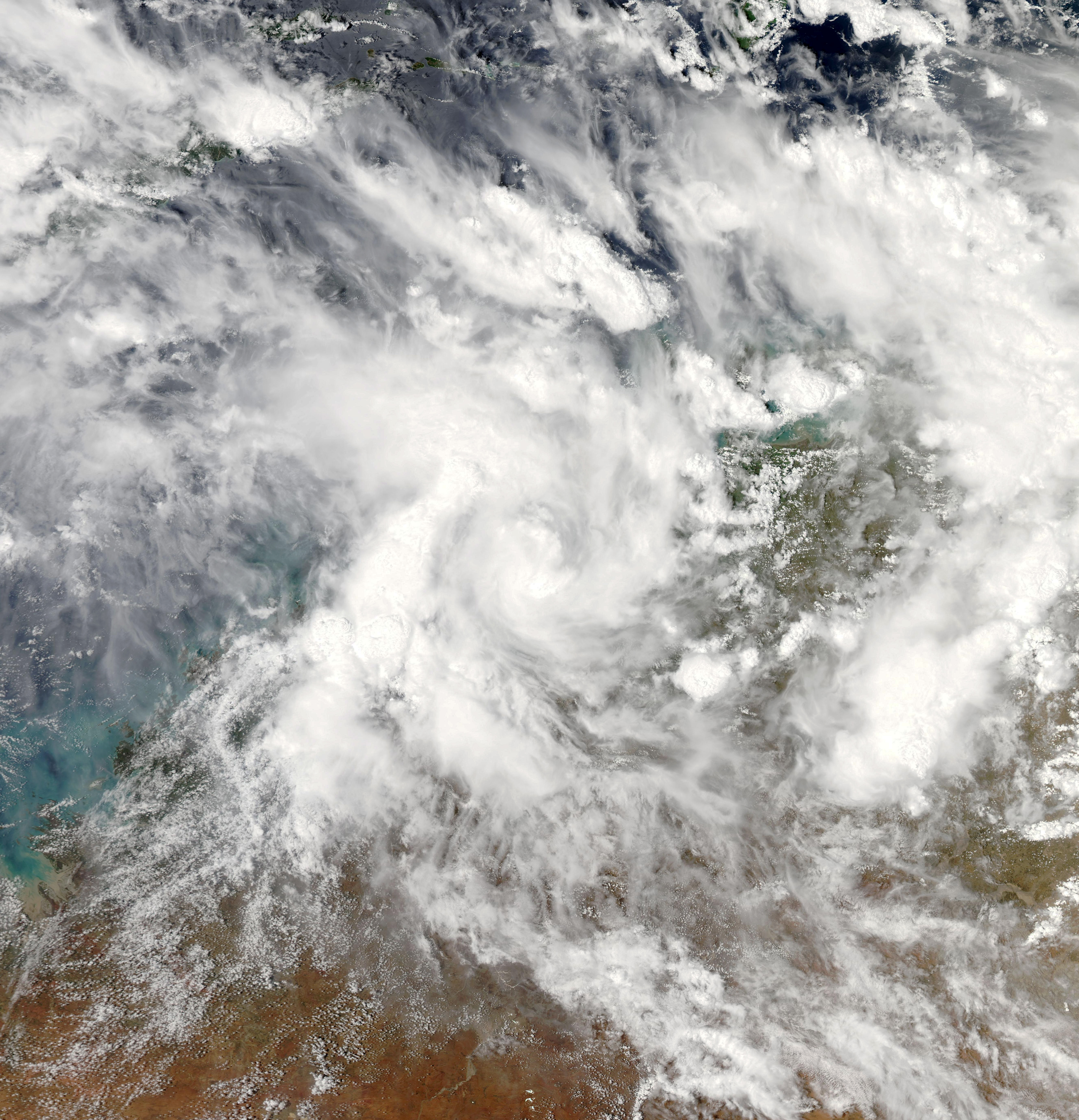 Tropical Cyclone Alessia on November 25, 2013